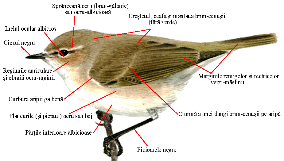 Phylloscopus collybita tristis, color details ro